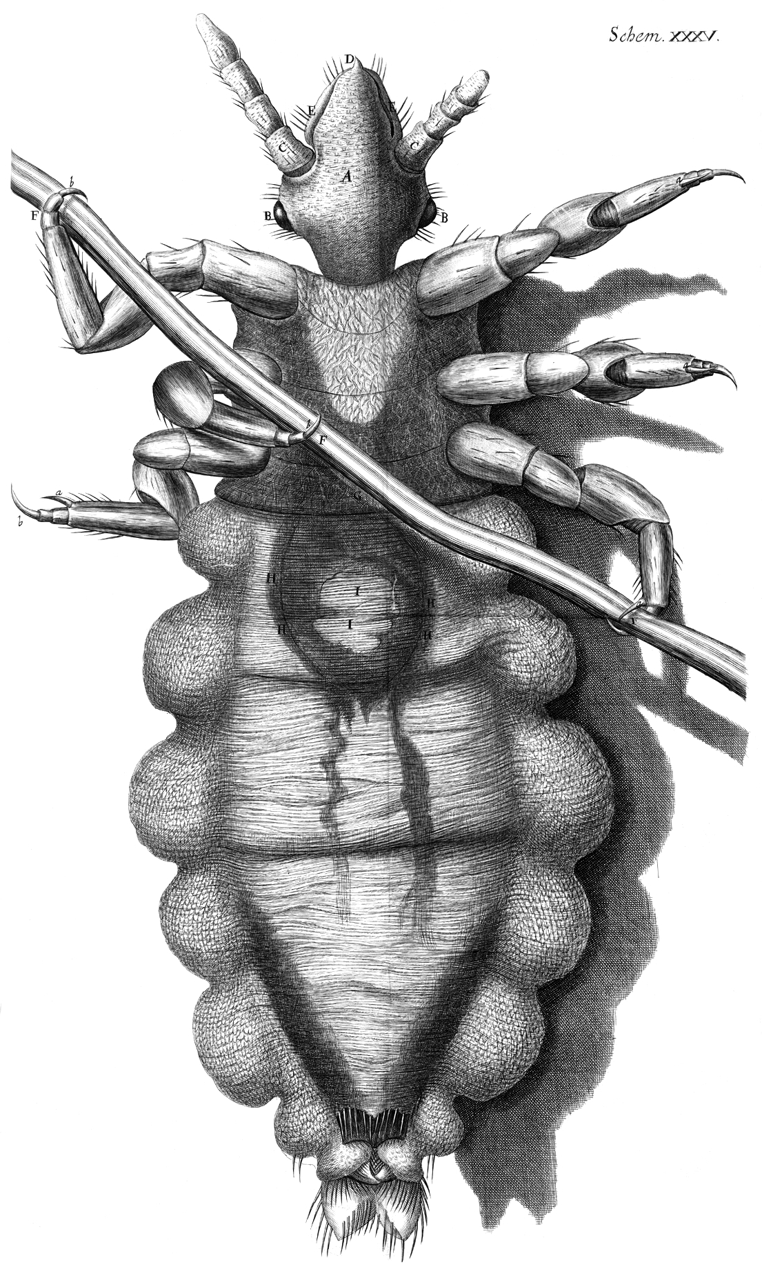 Schem. XXXV - Of a Louse. Diagram of a louse